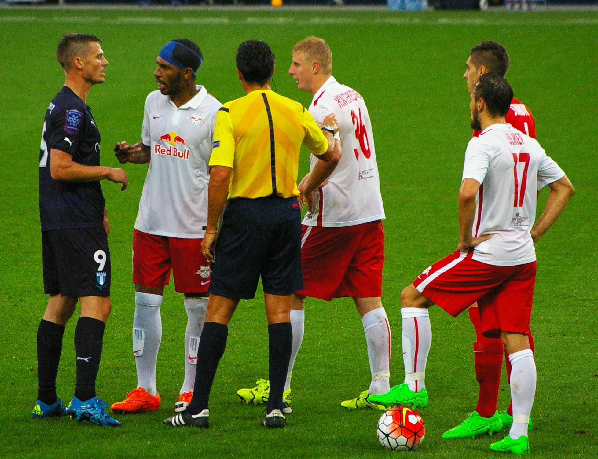 CL qualifing match 3rd round 1st leg